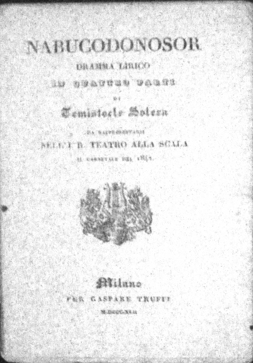 Libretto of Nabucco, by Temistocle Solera, 9 march 1842.